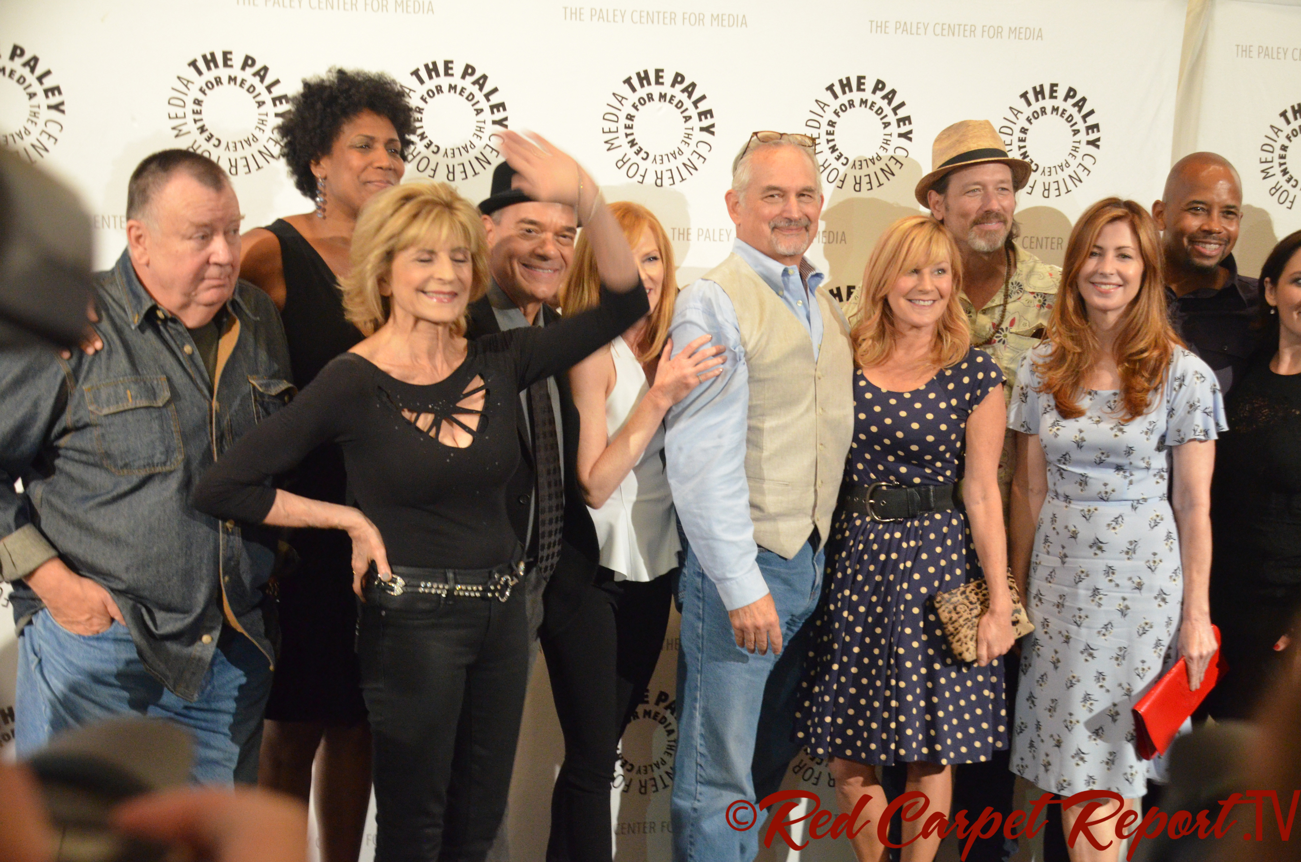 Mingle Media TV's Red Carpet - China Beach